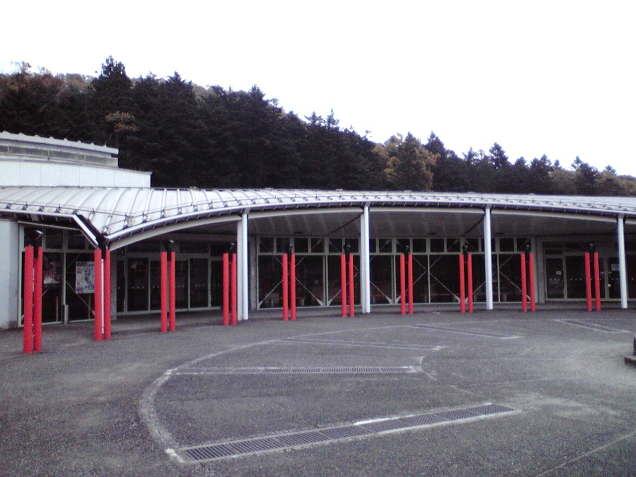 Nikko Kirifuri ice arena's outside.It is in Nikko, tochigi, Japan.